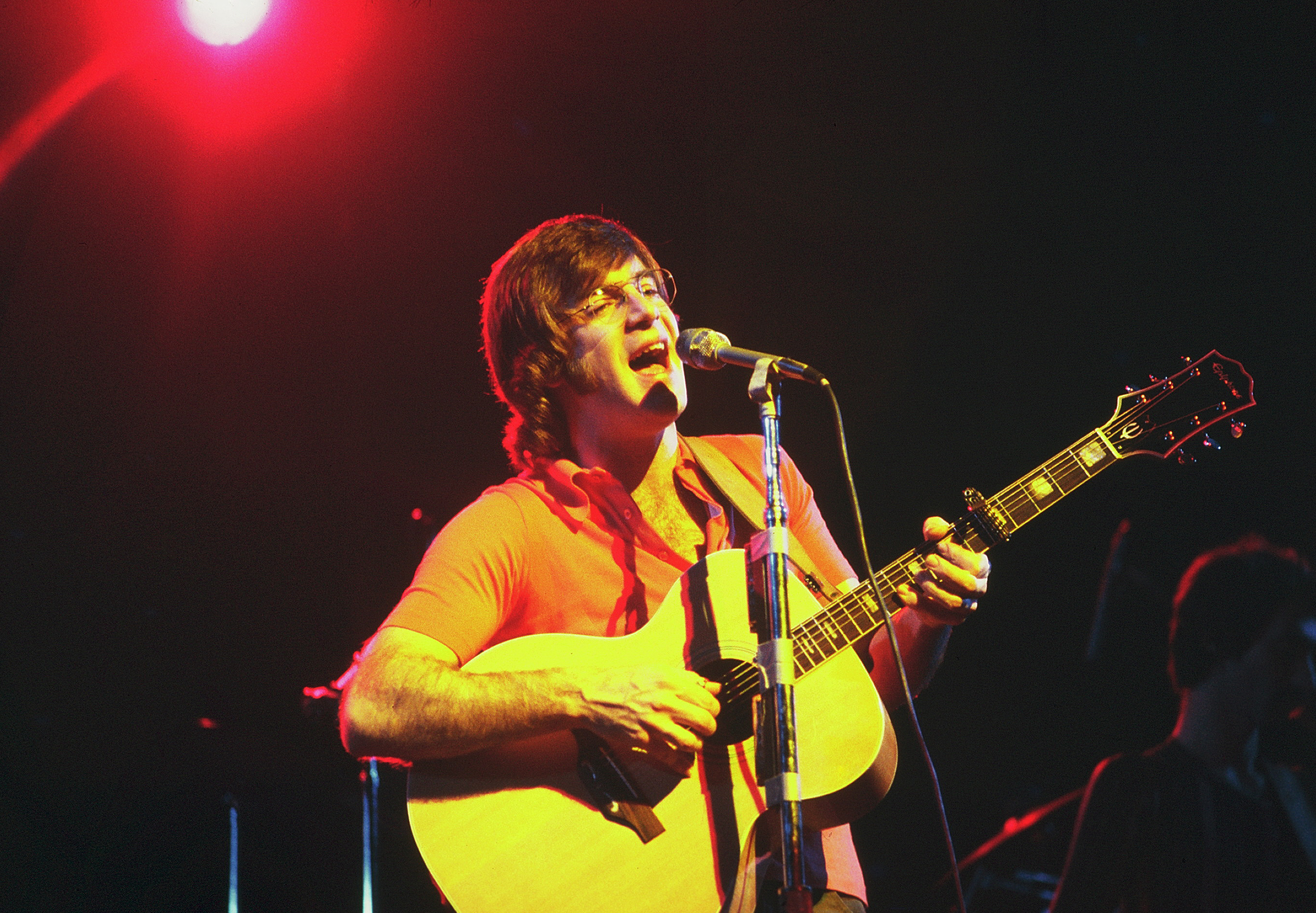 John Sebastian, American rock musician